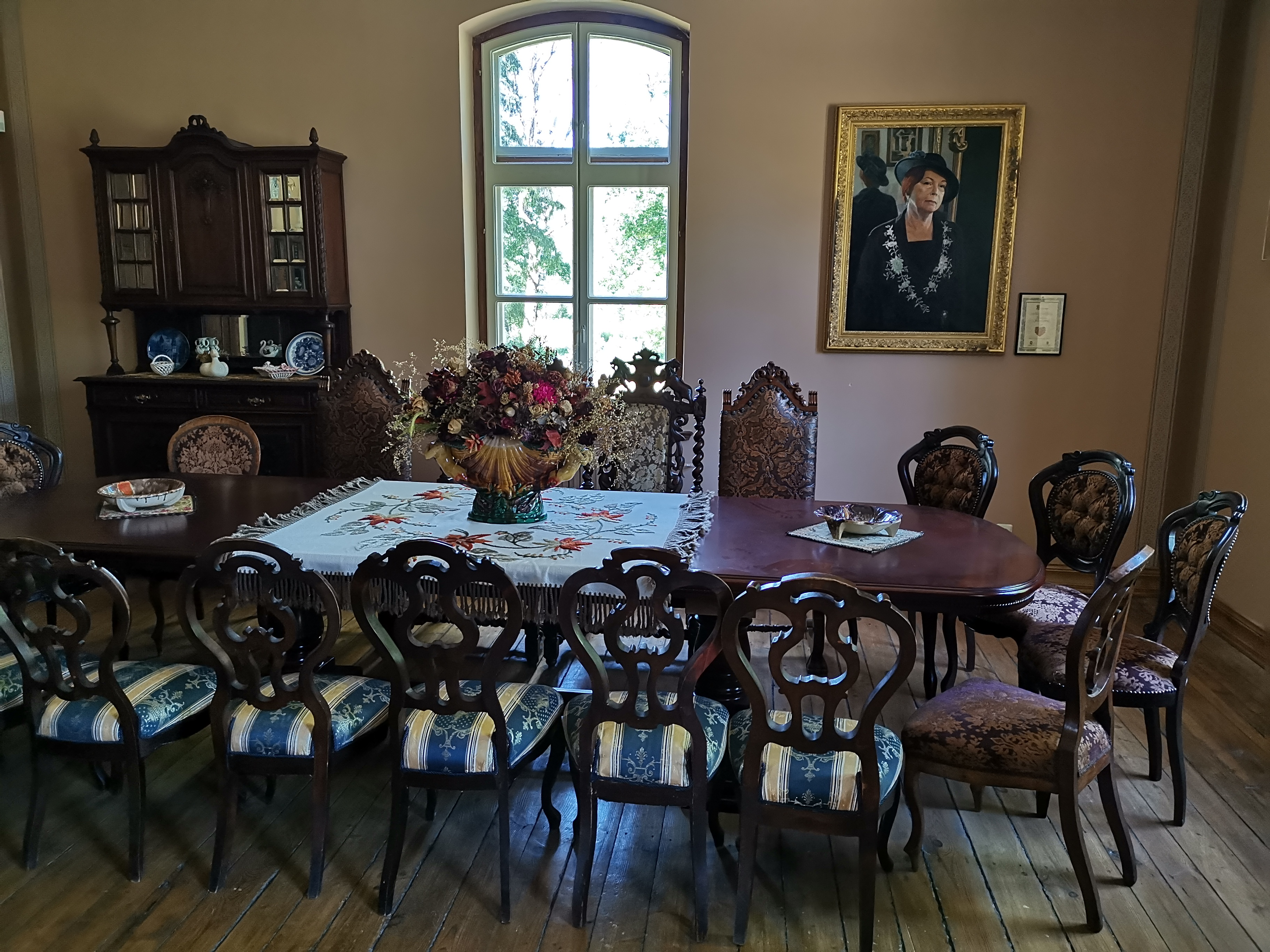 Interior of Dautarai manor